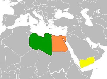 Location of Egpyt, Libya, and Yemen